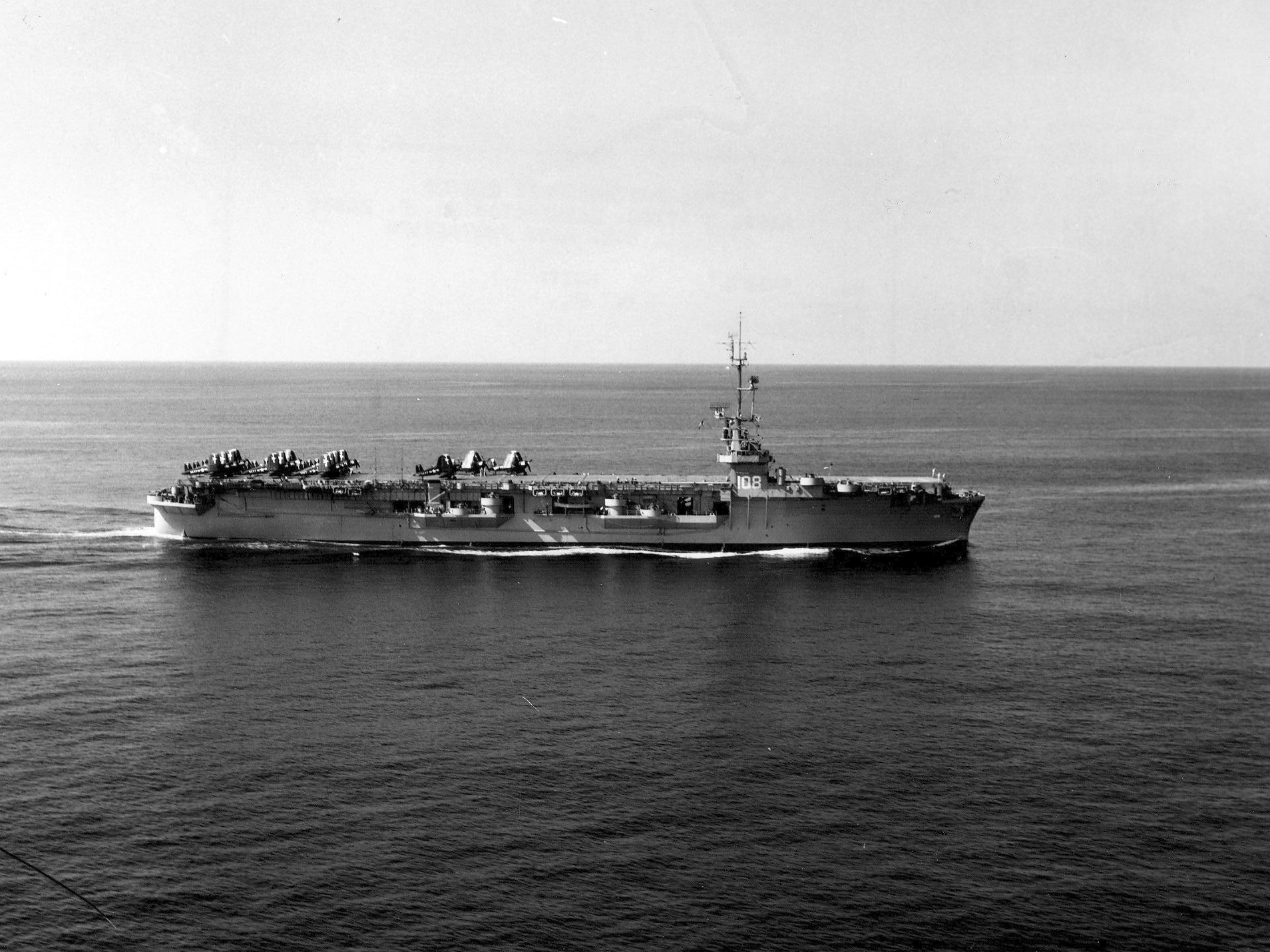 The U.S. Navy escort carrier USS Kula Gulf (CVE-108) underway with Vought F4U Corsairs on board.